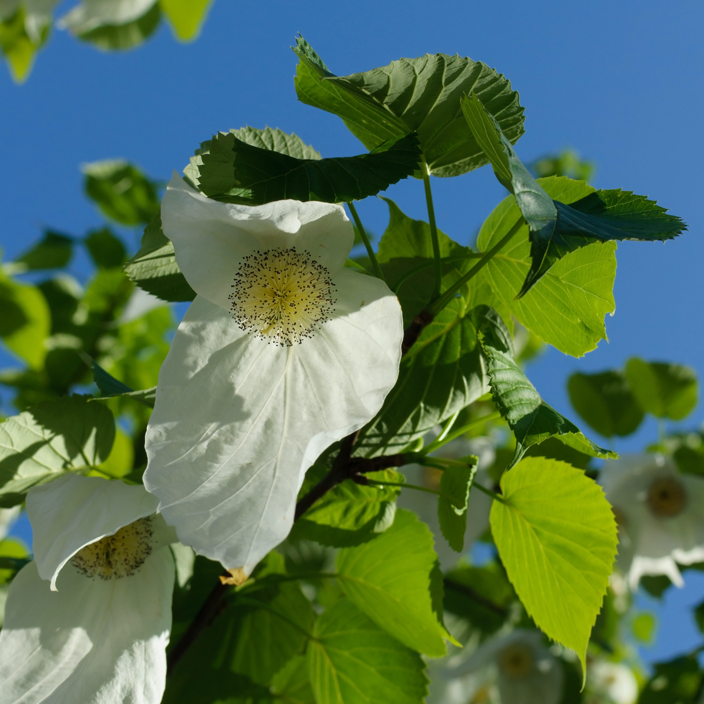 Davidia involucrata (dove tree, handkerchief tree, ghost tree) - Inflorescence and foliage